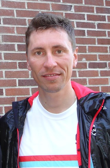 Robert Wagner à la sortie de l'hôtel avant le Grand Prix de Fourmies